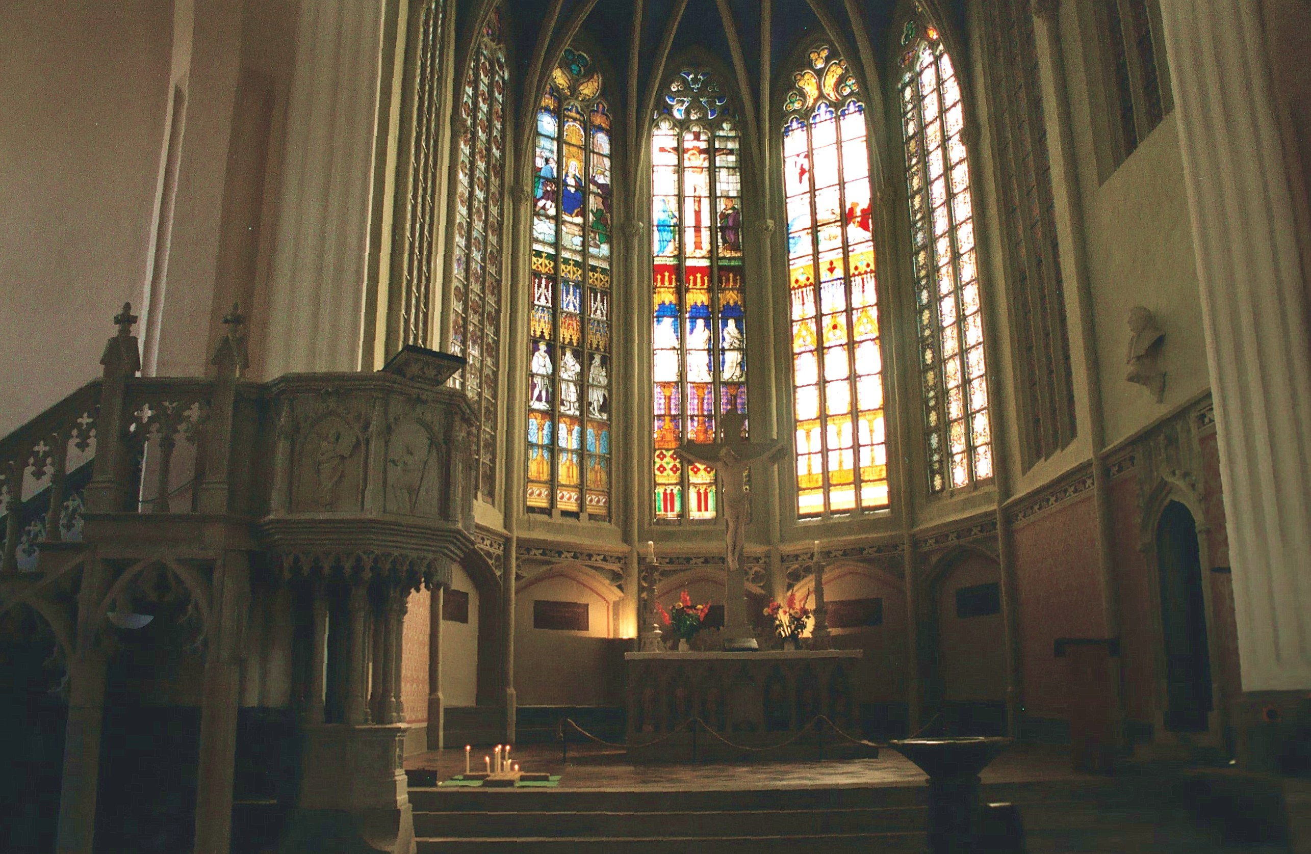 Bernburg, inner view of the Mary´s Church